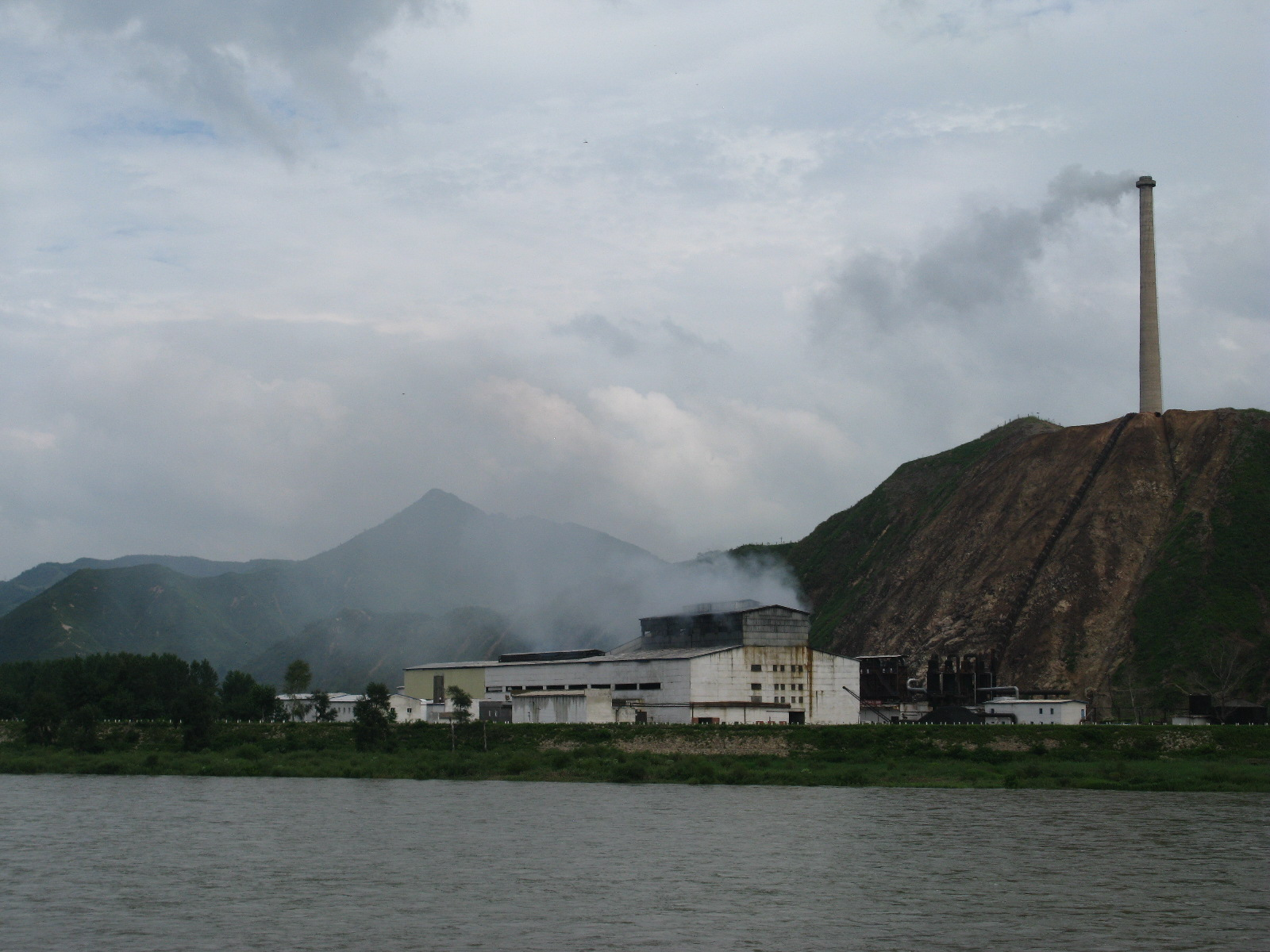 NK smelting plant From across the Yalu River, Ji'an